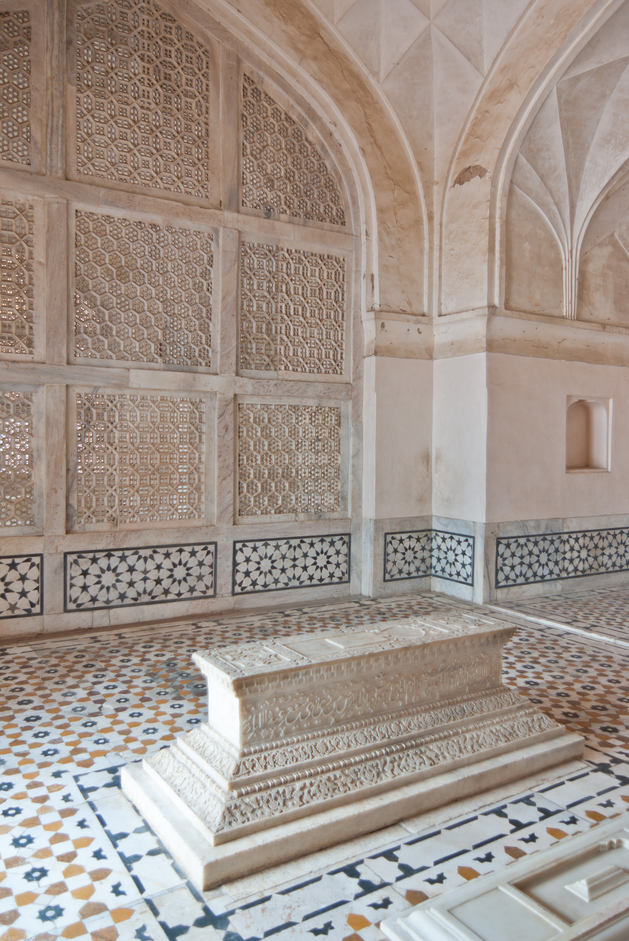 Akbar's Tomb